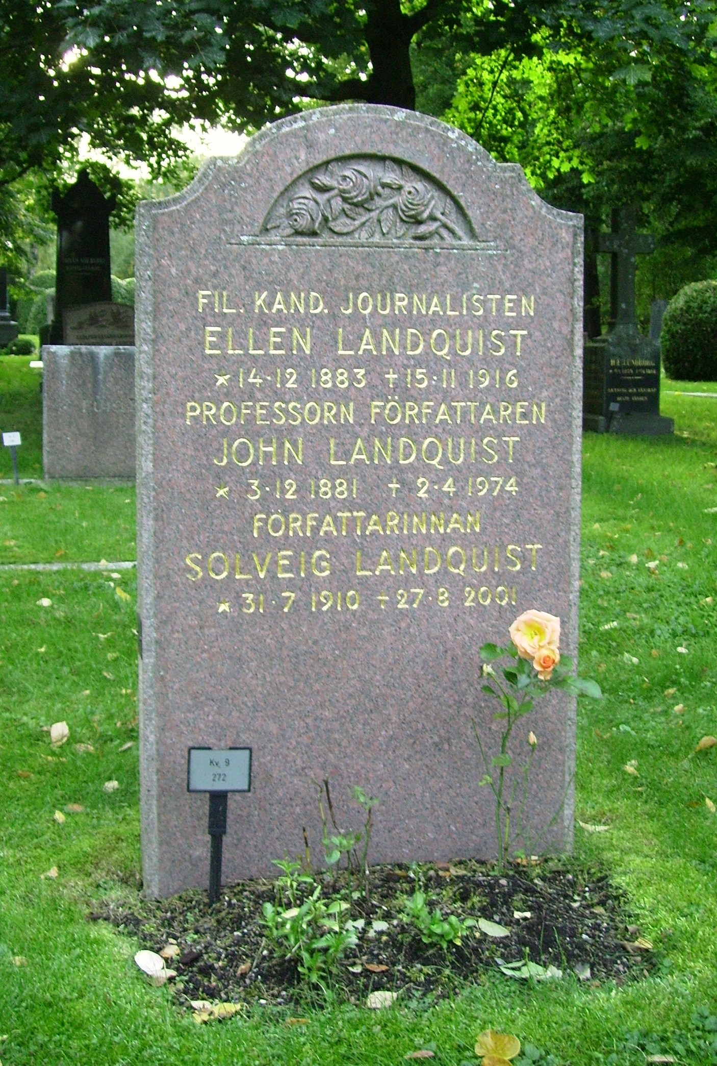 Picture of John Landquist's grave at Norra begravningsplatsen in Solna